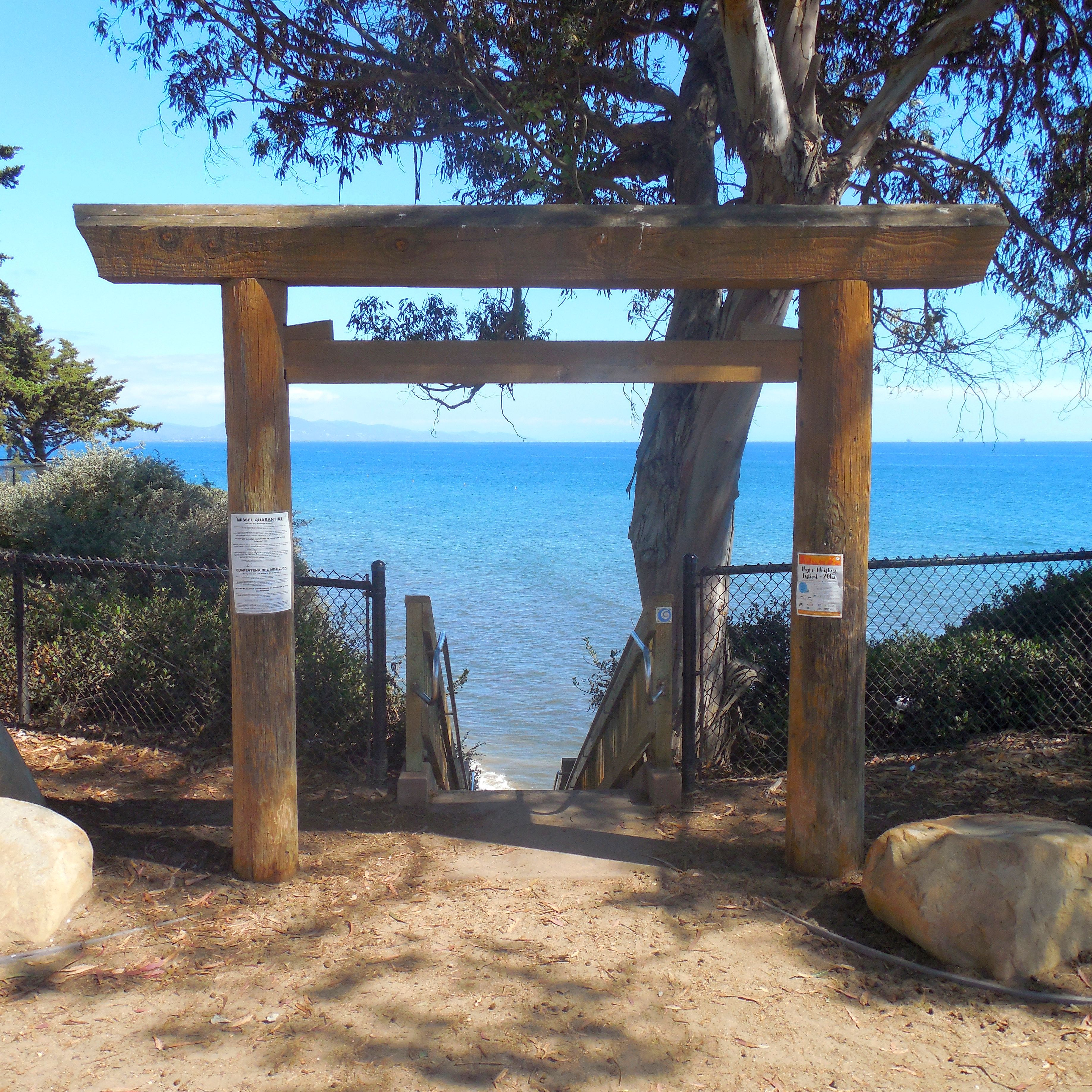 Torii gate and stairway descending from the bluffs of Shoreline Park to the beaches below in Santa Barbara, California, Sep 2015